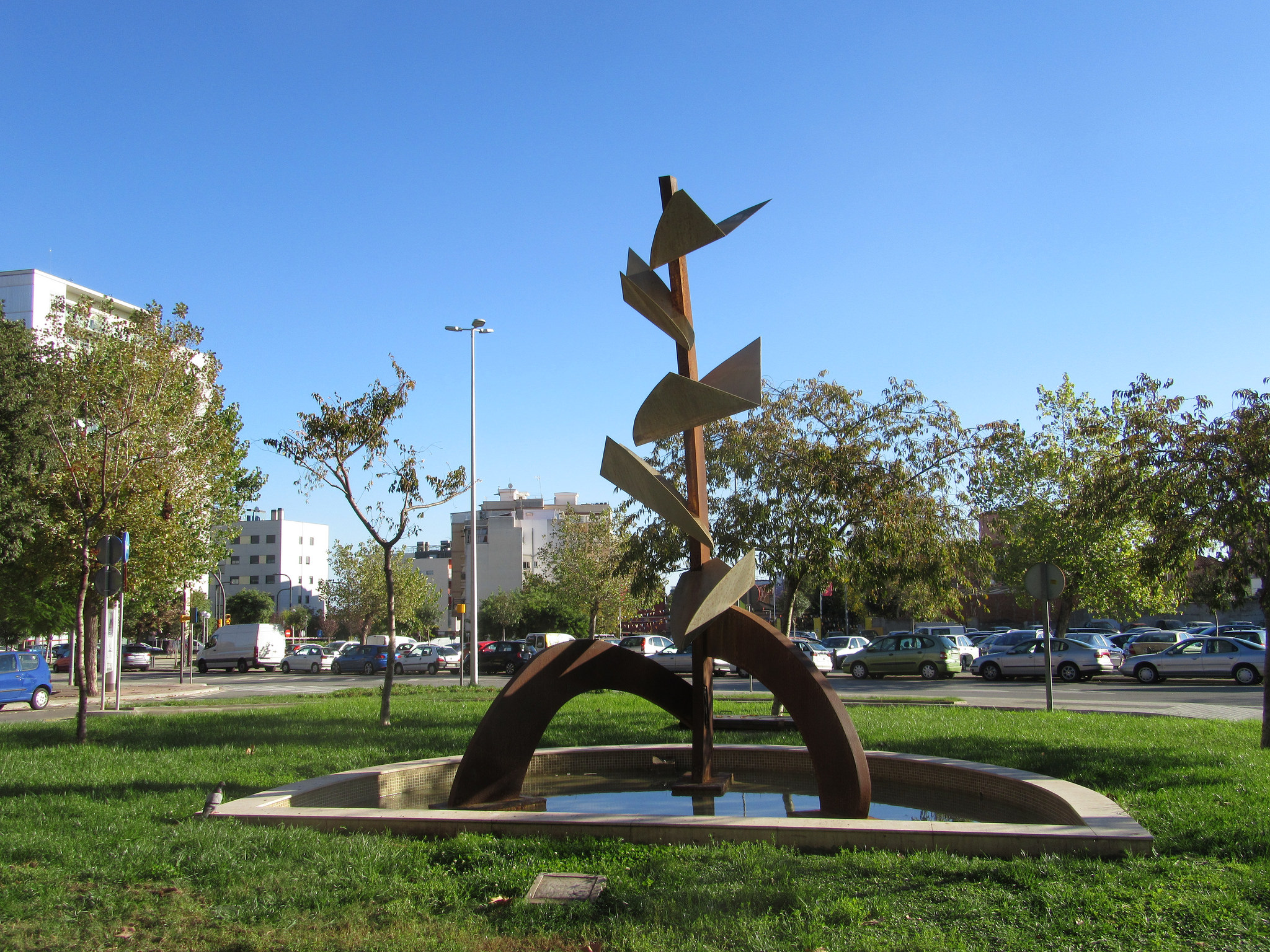 Marzo-Mart's sculpture in Esplugues de Llobregat (Catalonia)